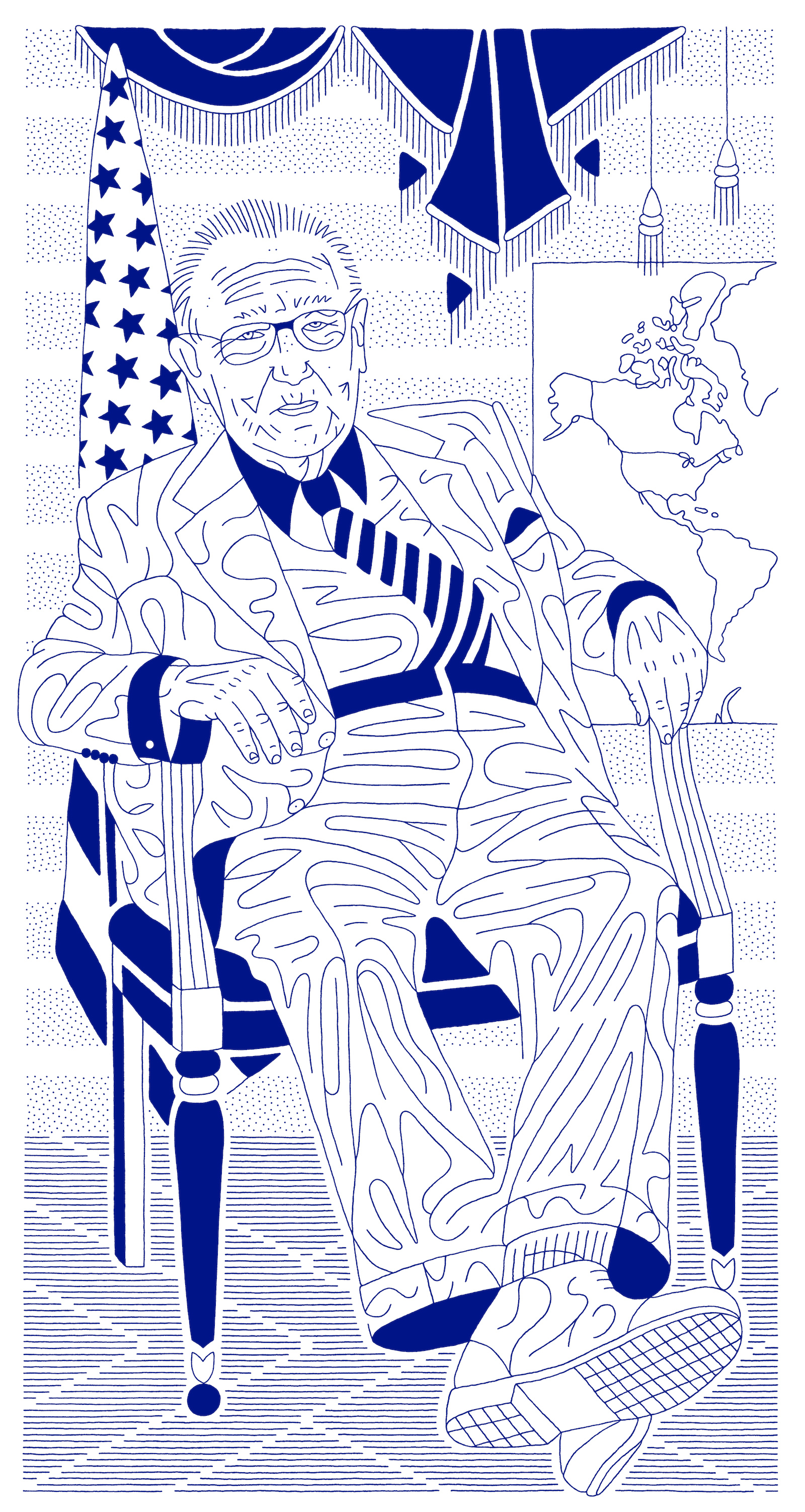 "Doctor Kissinger", also called "In seine Hand die Macht gegeben"